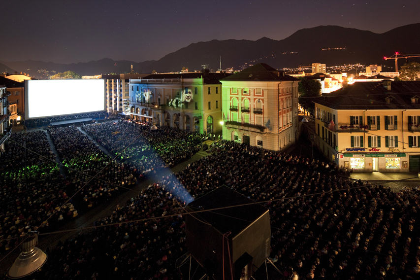 Piazza Grande